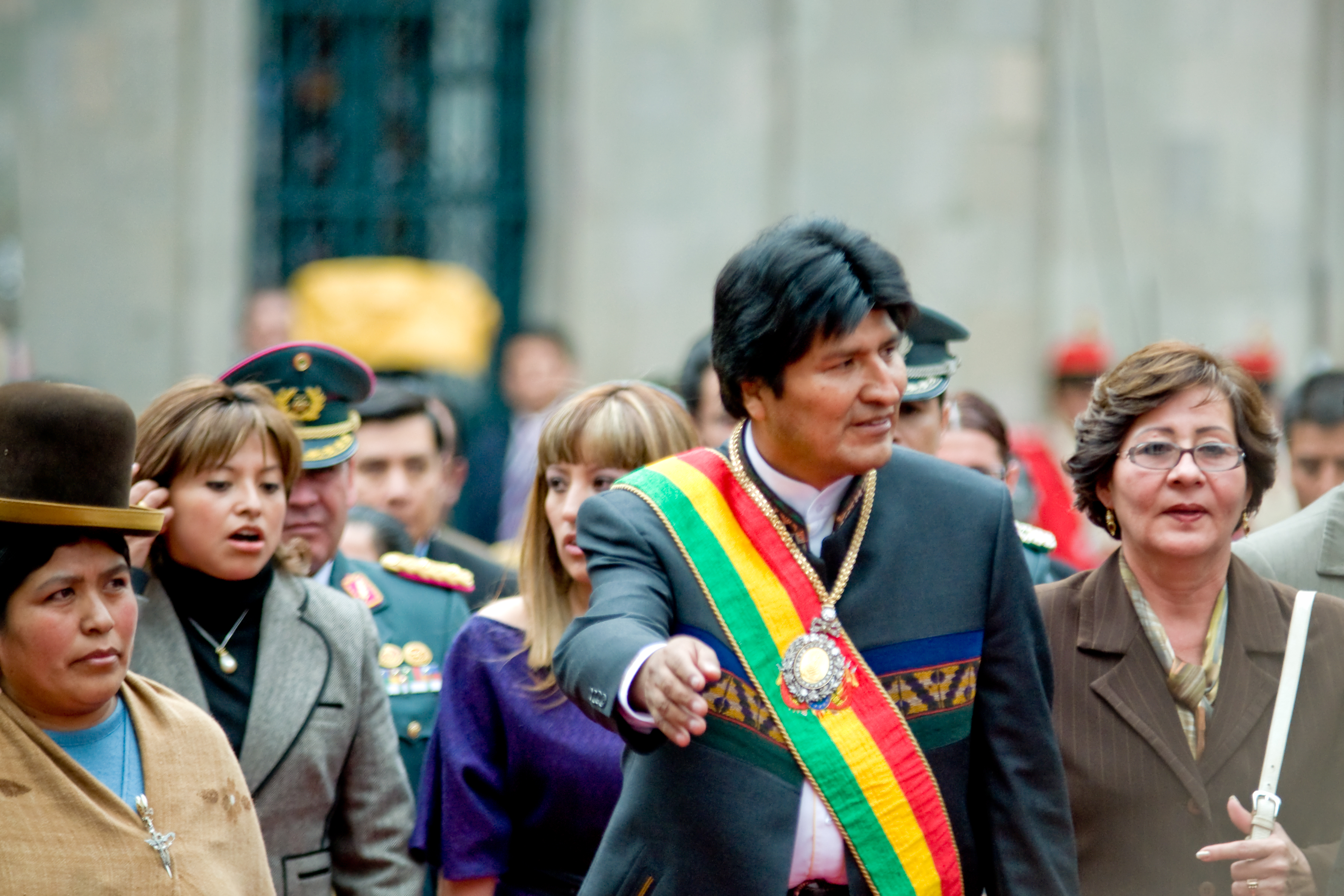 Evo Morales two years